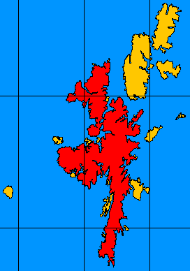 Adaption of Image:Shetland.png highlighting Shetland Mainland